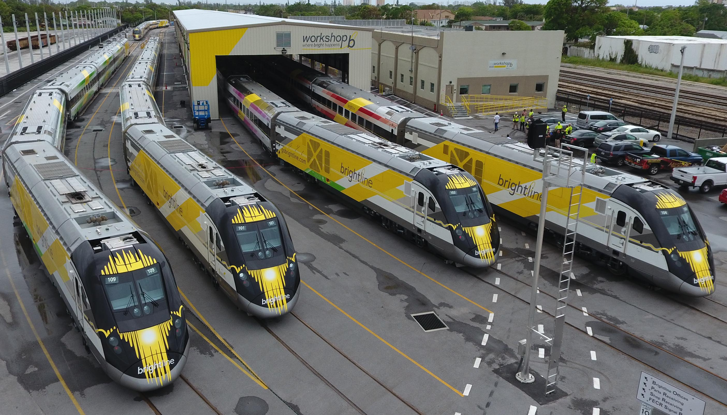 Brightline's 5 trains together at Workshop b in West Palm Beach, Florida.